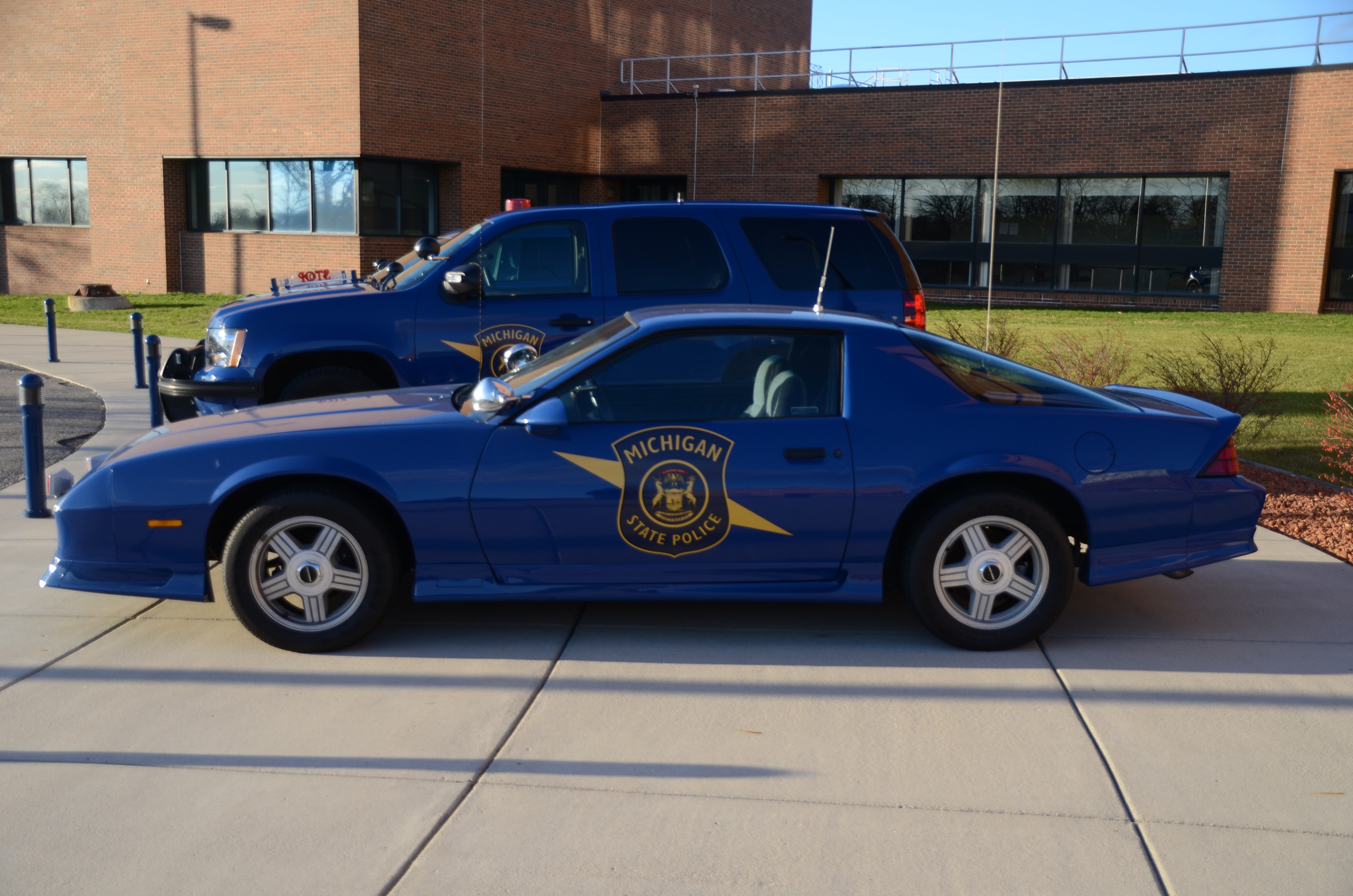 Michigan State Police cars parked in front of the State Police Training Academy in Dimondale, Michigan on a nice fall evening. Taken October 27, 2012